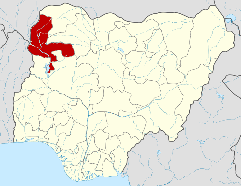 Map locator of Nigeria.